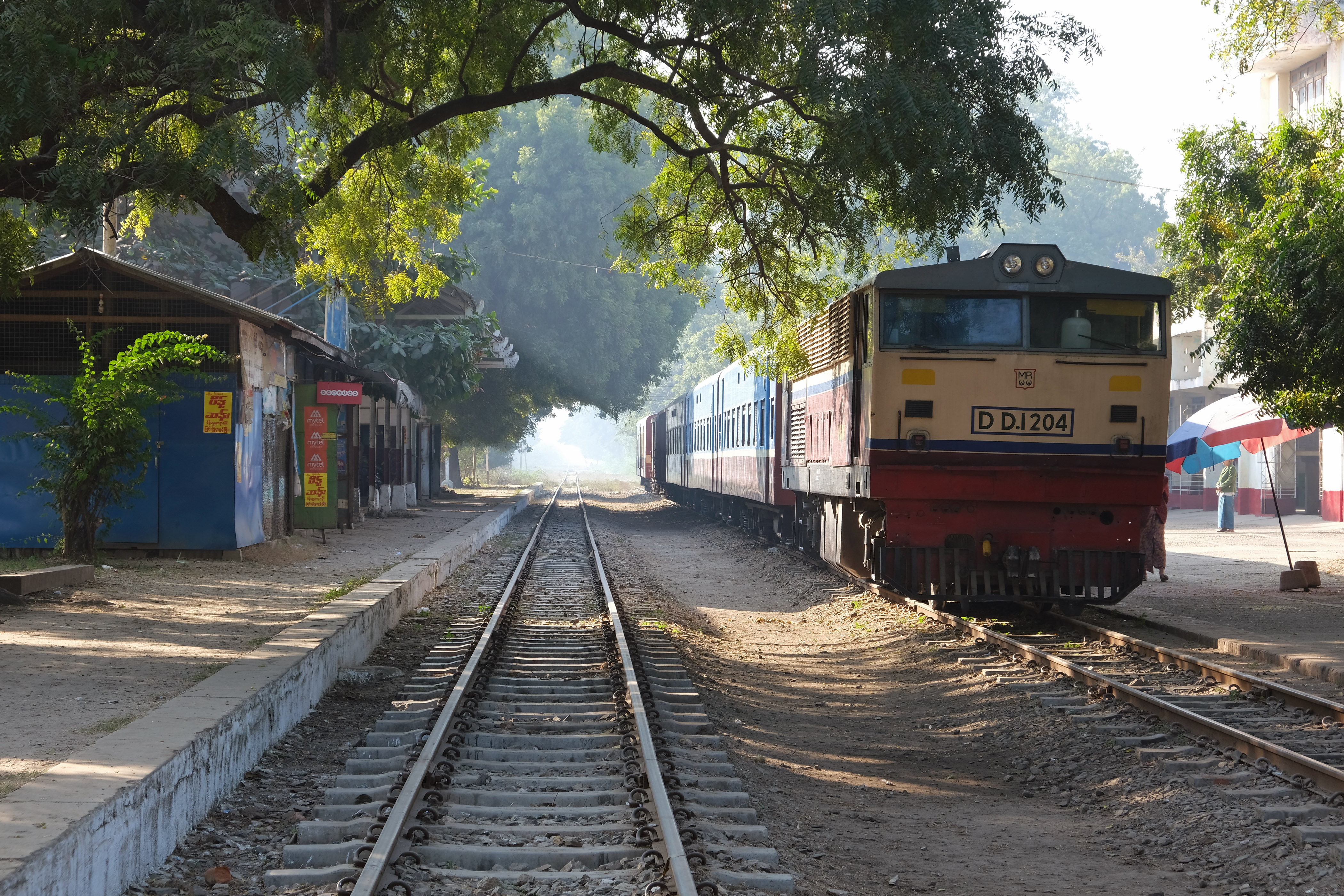 Train from Bagan to Mandalay stopping at Myingyan Railway Station.